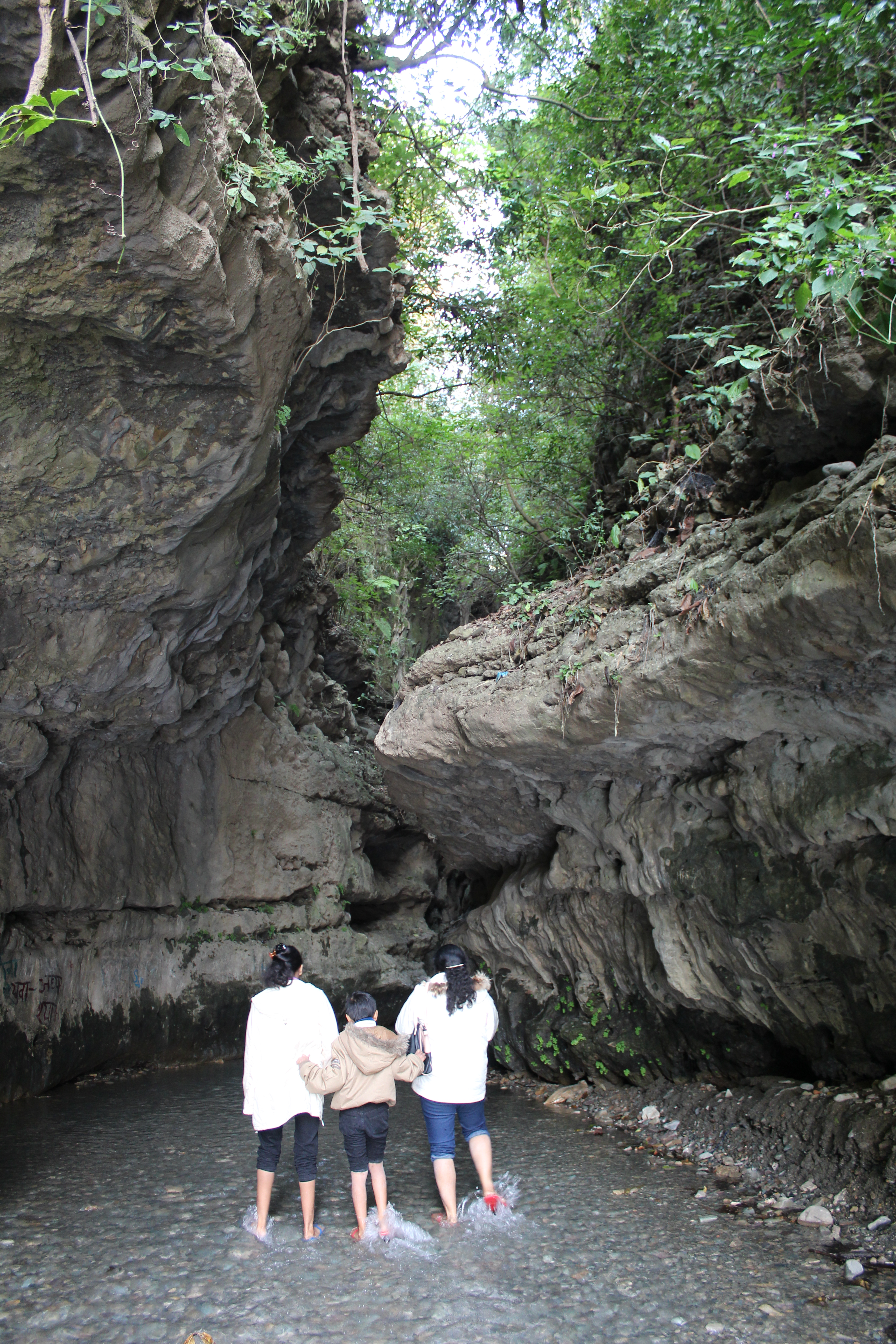 It is Khown as Guchhupani also.